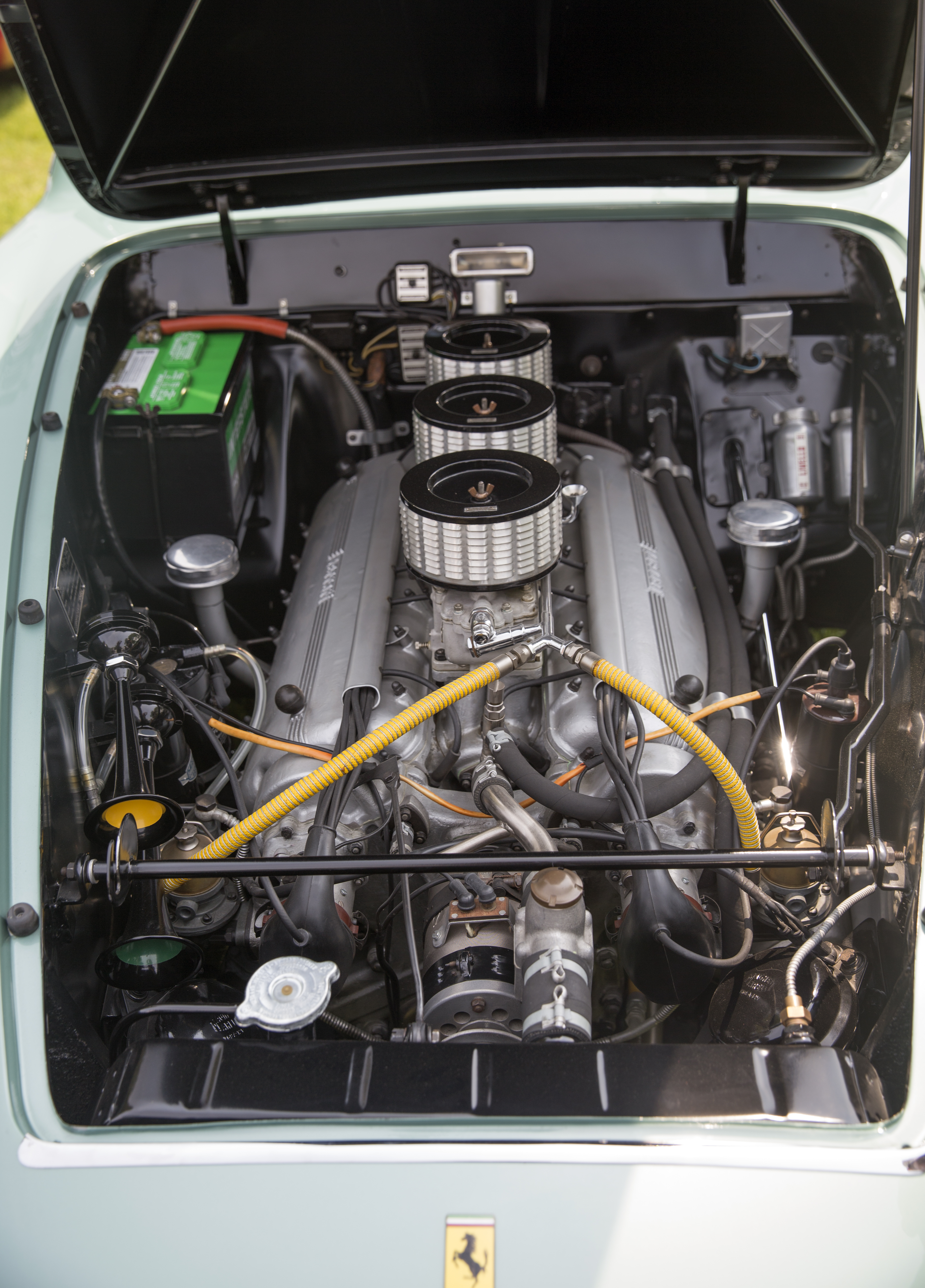 The 4.1-liter V12 engine in a 1952 Ferrari 342 America Pinin Farina coupé at the 2019 Greenwich Concours d'Elegance. Shiny green was the original paint scheme, although the car spent many decades black. At least it didn't have to suffer the indignity of being painted "Resale Red."